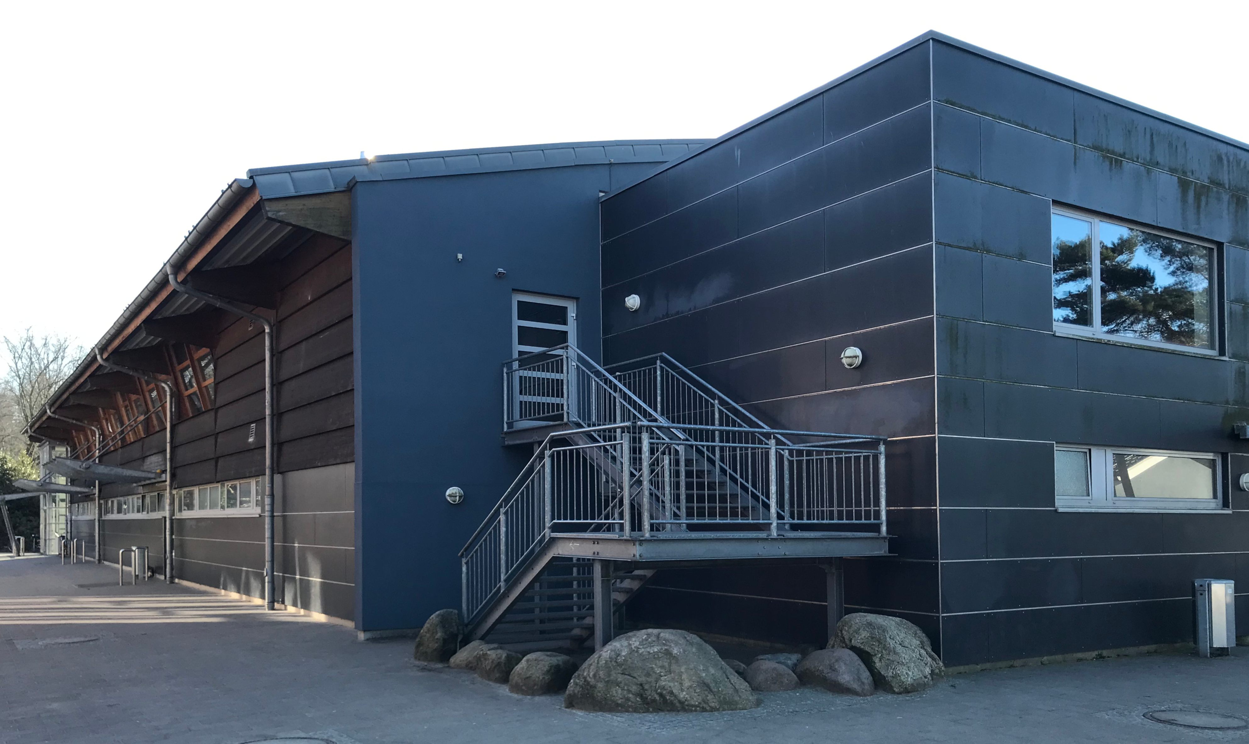 Marion-Dönhoff-Gymnasium (Hamburg), new building